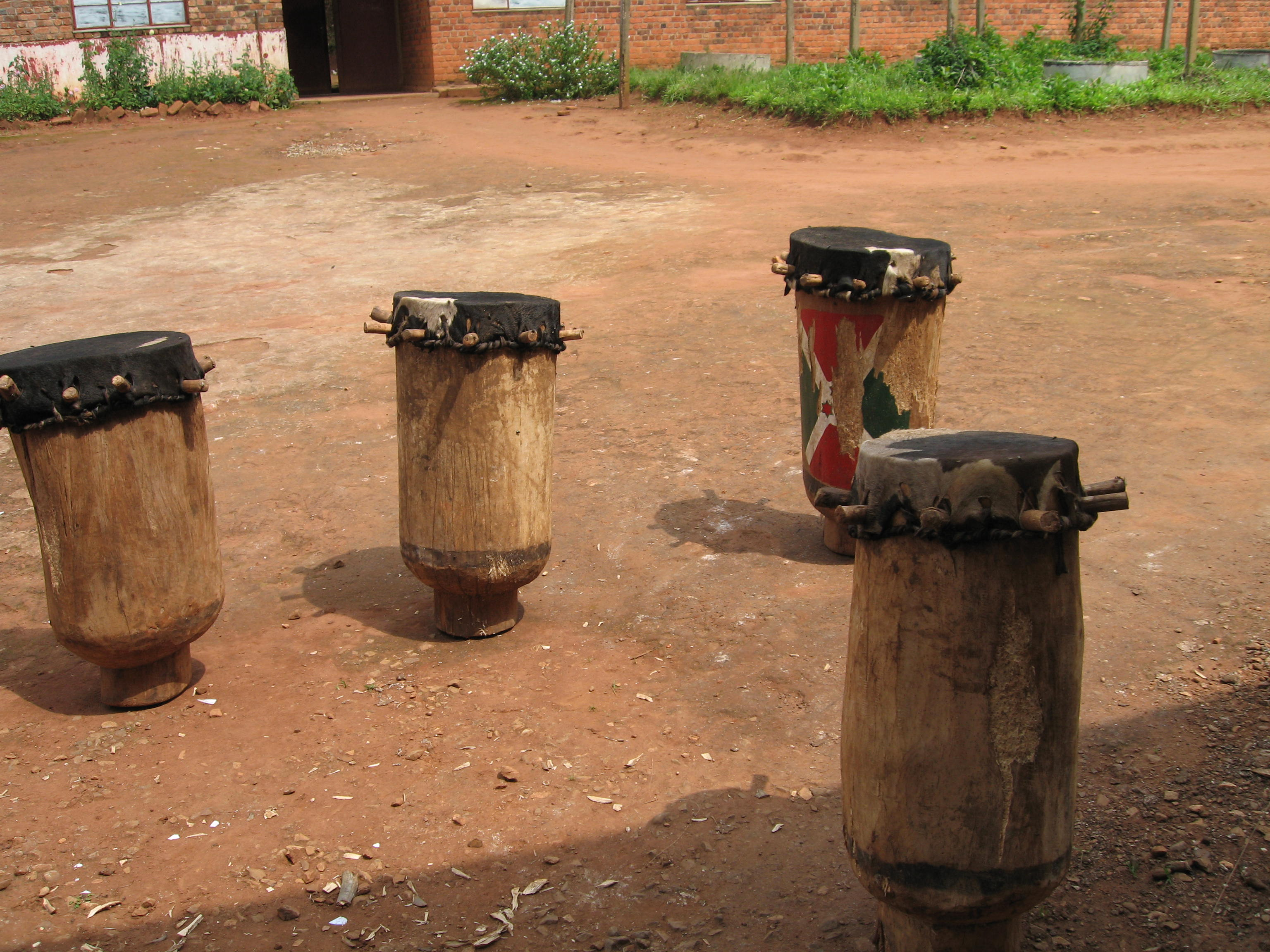 Gitega drums are famous around the world. Burundi is the land of the sacred tambours.